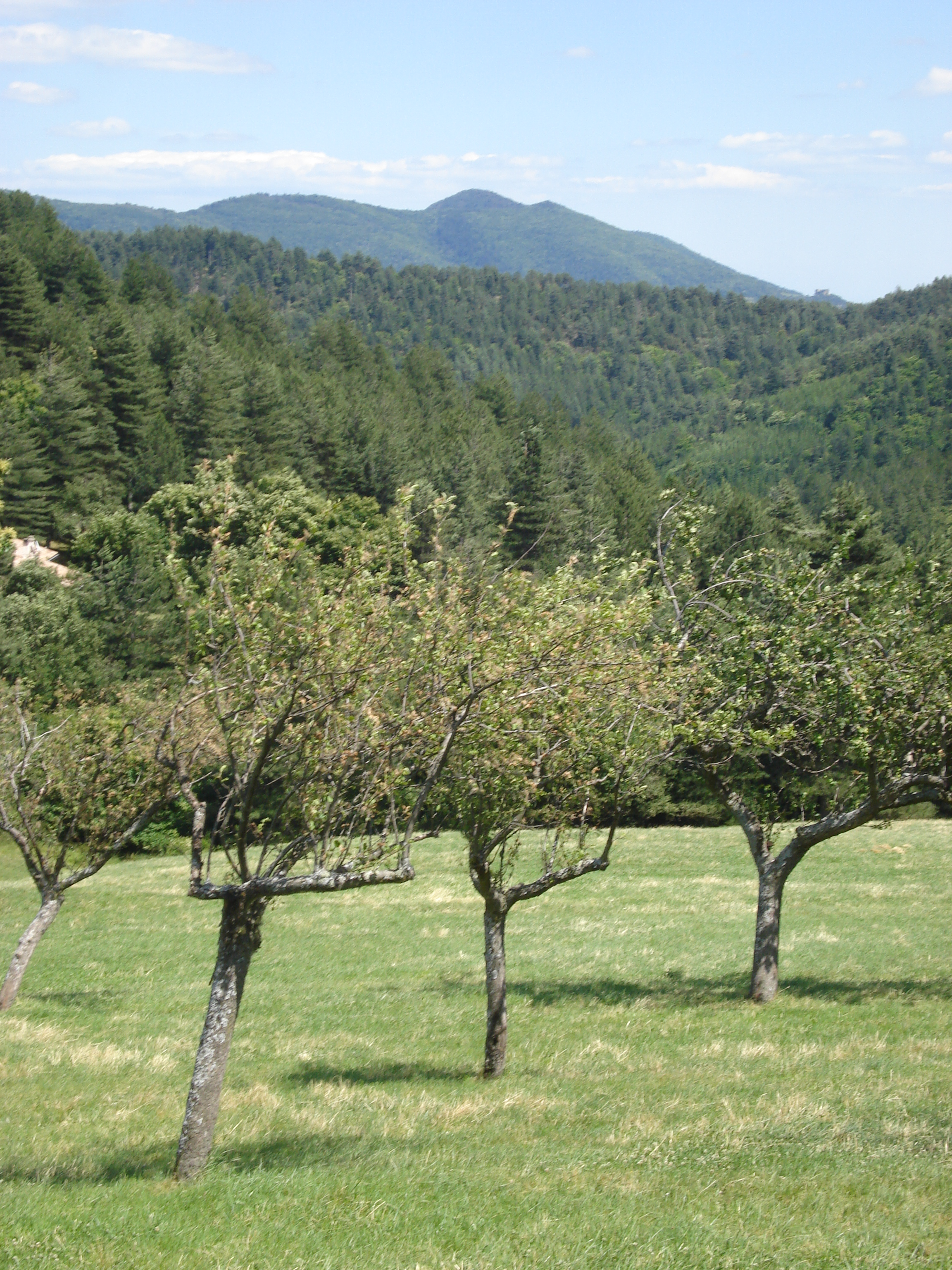 Concoules (Gard, Fr), paysage cévenol